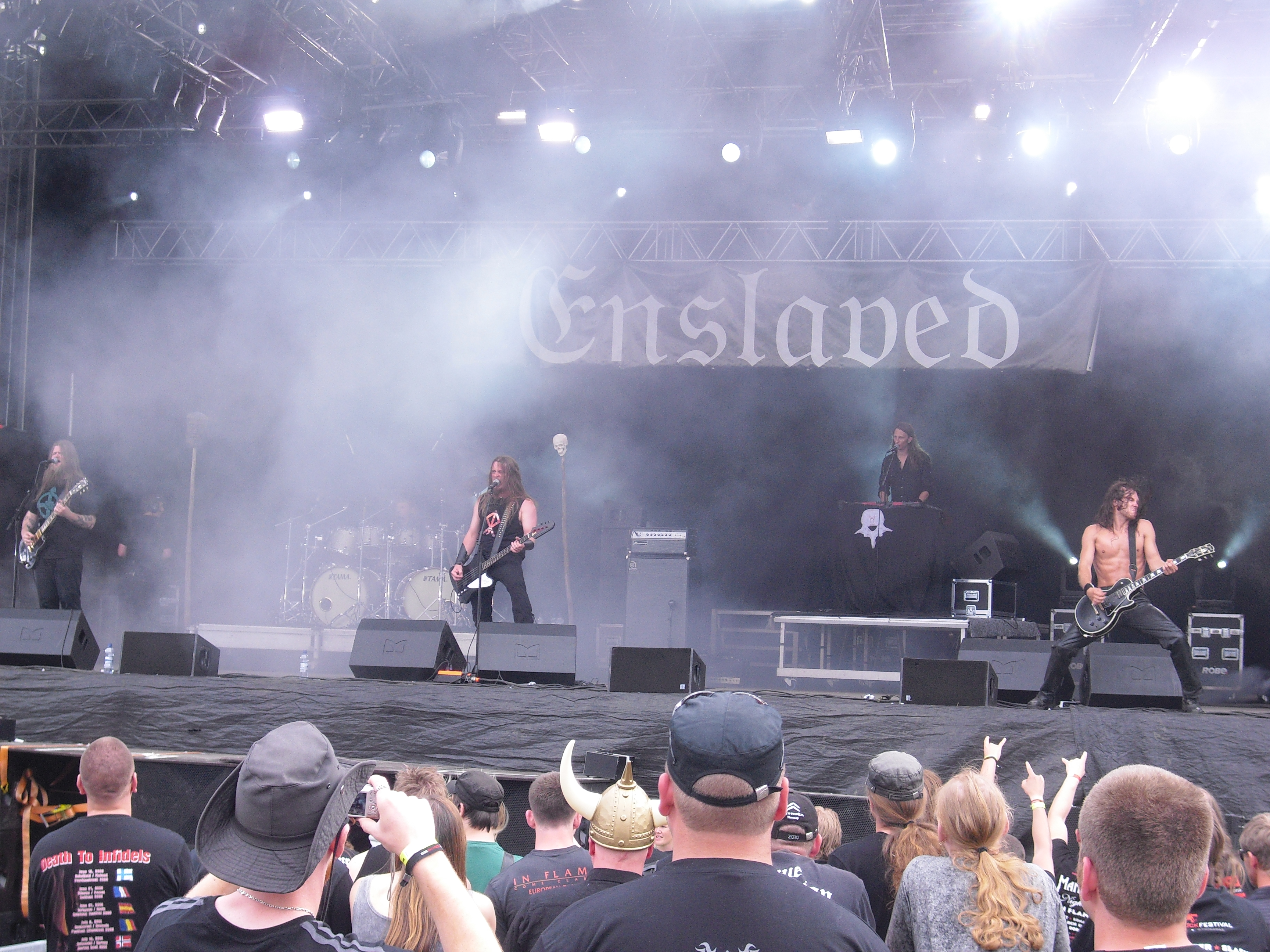 Enslaved performing live at Norway Rock Festival July 2010